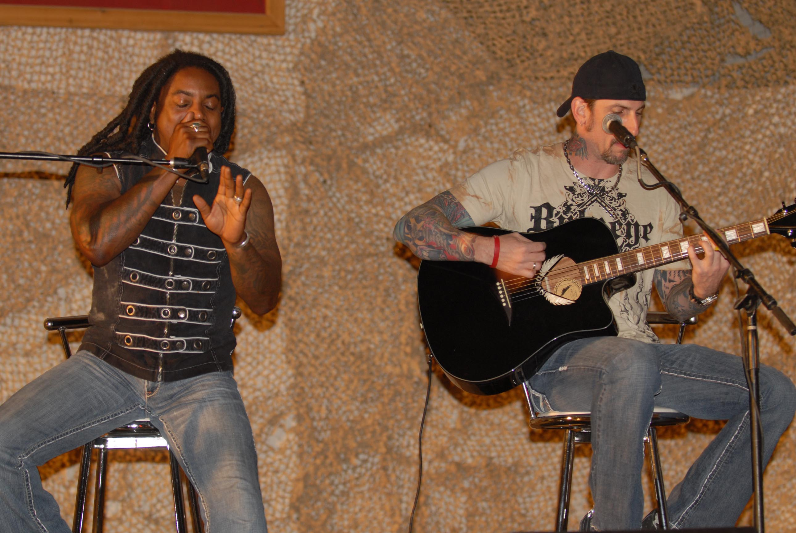 Sevendust performs for service members stationed at Bagram Air Field, Afghanistan, July 12. The performance concluded the band's first USO tour.